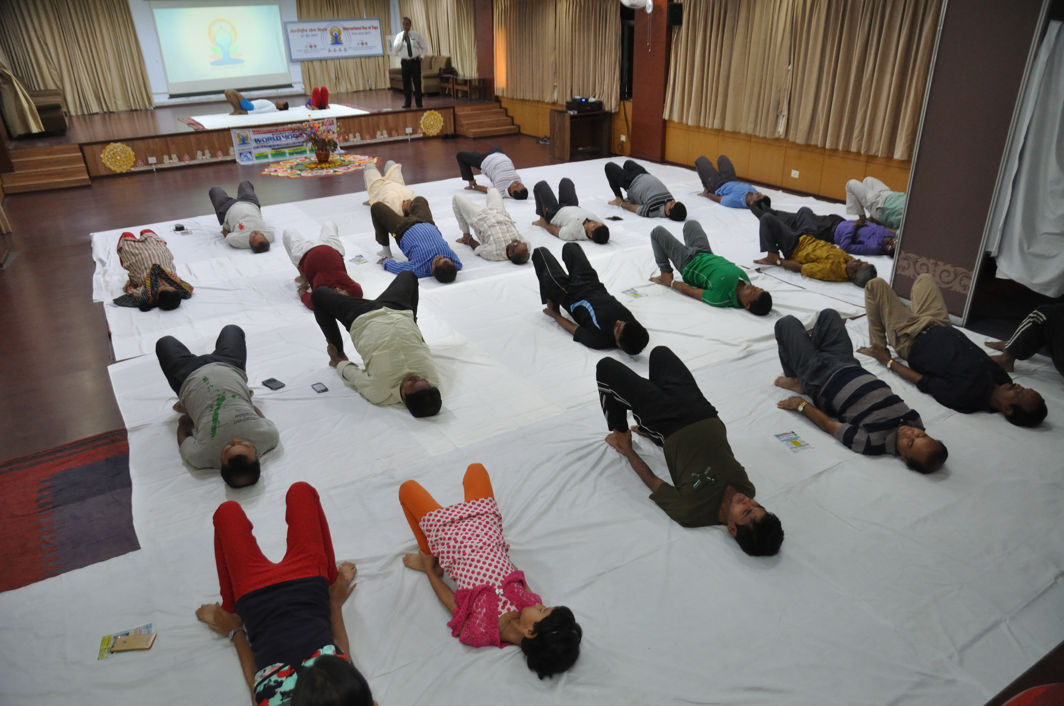 The ‘International Day of Yoga’ was celebrated by the National Council of Science Museums (NCSM), Kolkata, under the Ministry of Culture, Govt. of India. About twenty five persons took part at the Yoga programme.